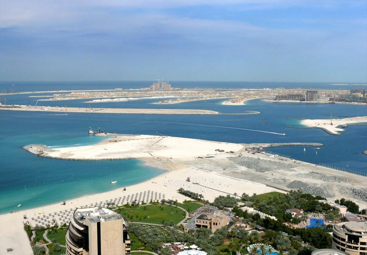 This is a photo of the Palm Jumeirah, located in Dubai, United Arab Emirates, on 19 January 2008. The piece of undeveloped land seen in the foreground is the future site of Dubai Promenade. This photo was taken form Jumeirah Beach Residence.